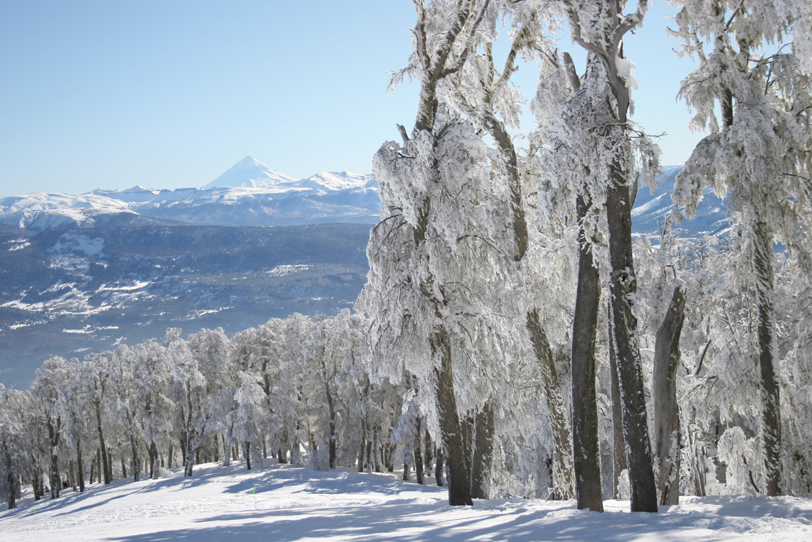 Chapelco Ski Resort, a beautifull place.